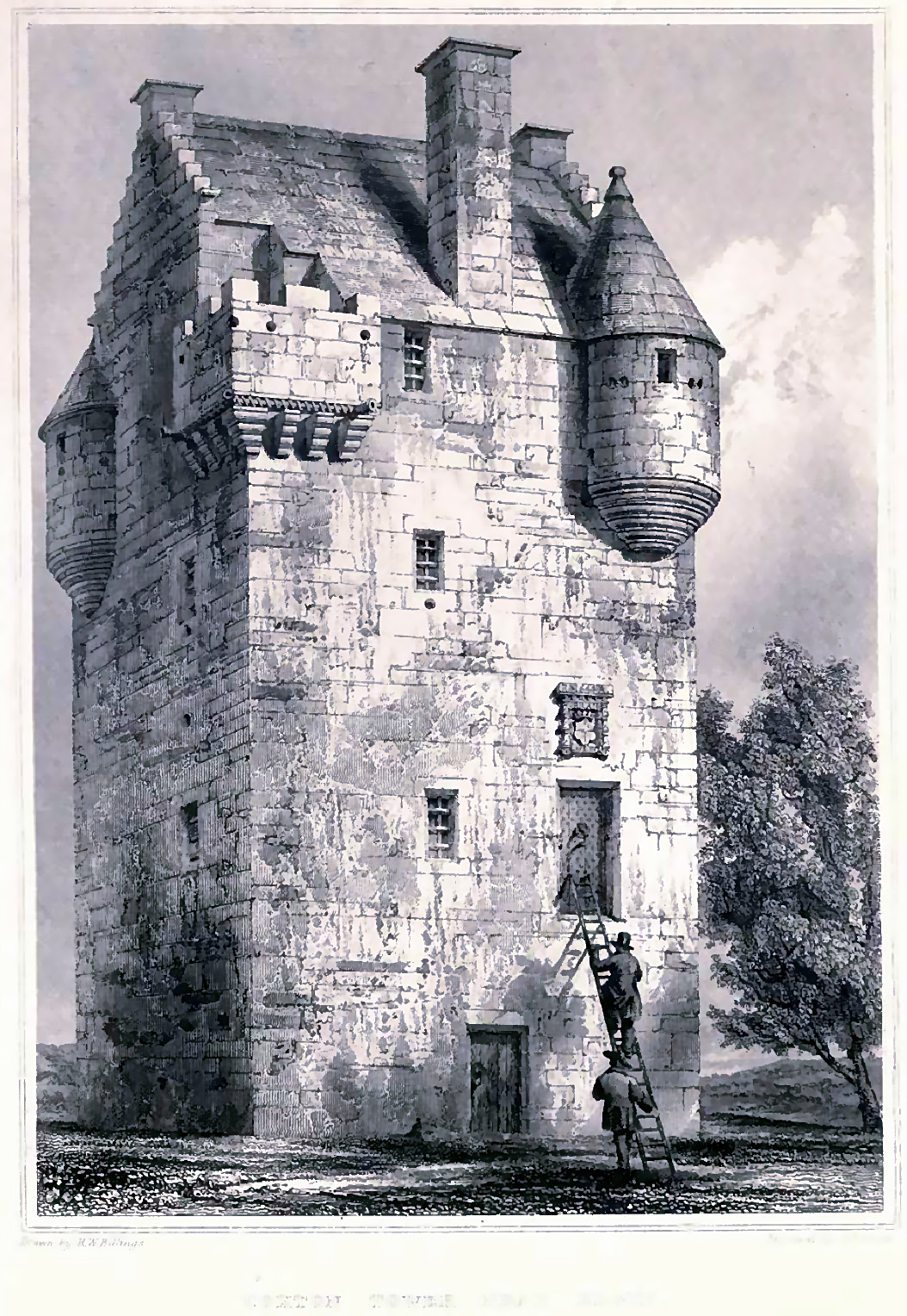 Coxton Tower, Scotland.